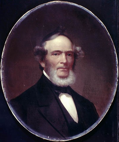 Dr Charles Duncombe circa 1840